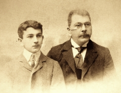 Portrait of the father and the grandfather of Armen Leonovich Takhtajan (1910-2009), Russian botanist.On the left: Leon Meliksanovich Takhtajan (1884-1950), the father of Armen Takhtajan. On the right: Meliksan Petrovich Takhtajan (died in 1930s), the grandfather of Armen Takhtajan.